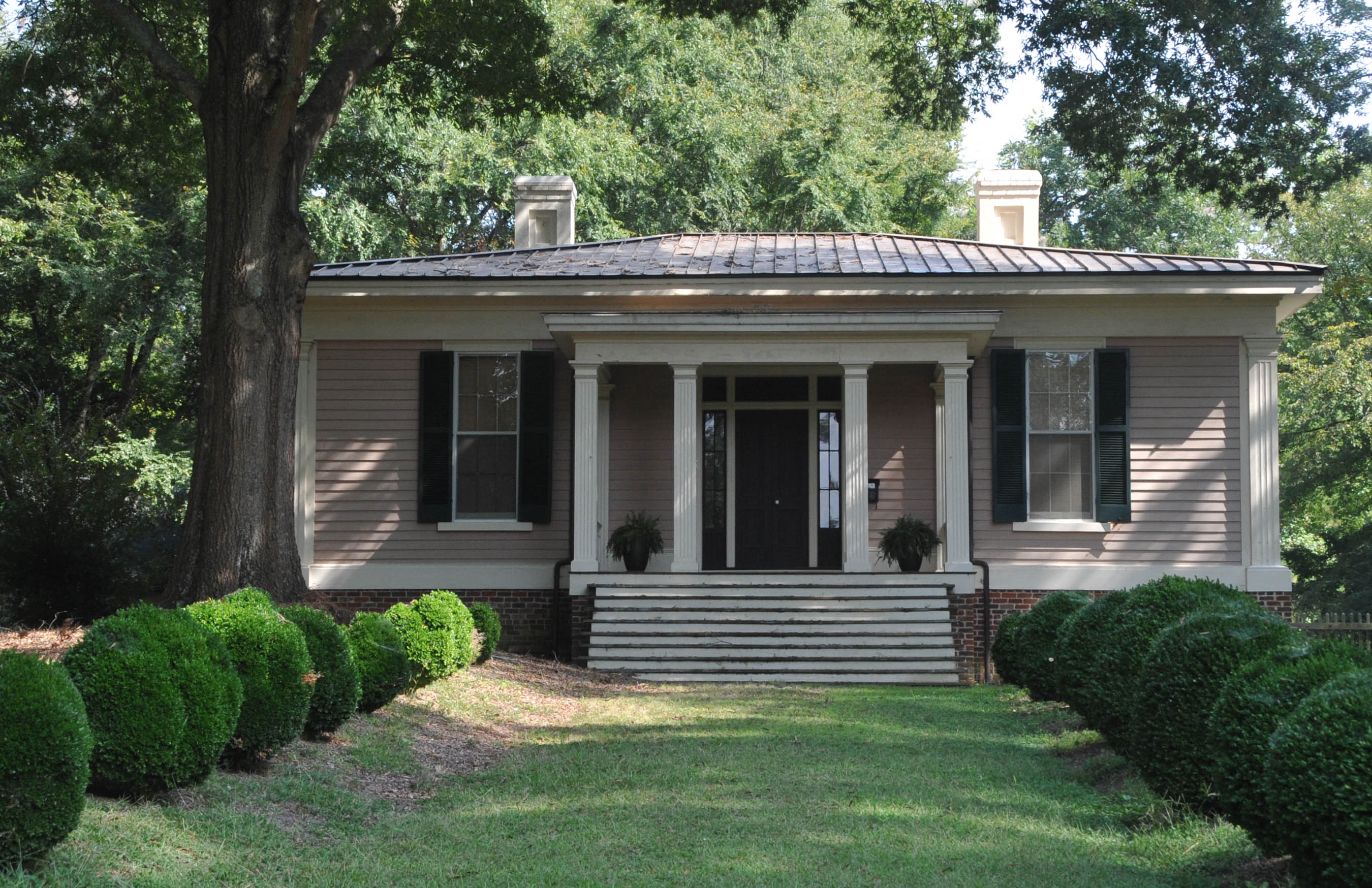 1855; EXOTIC REVIVAL